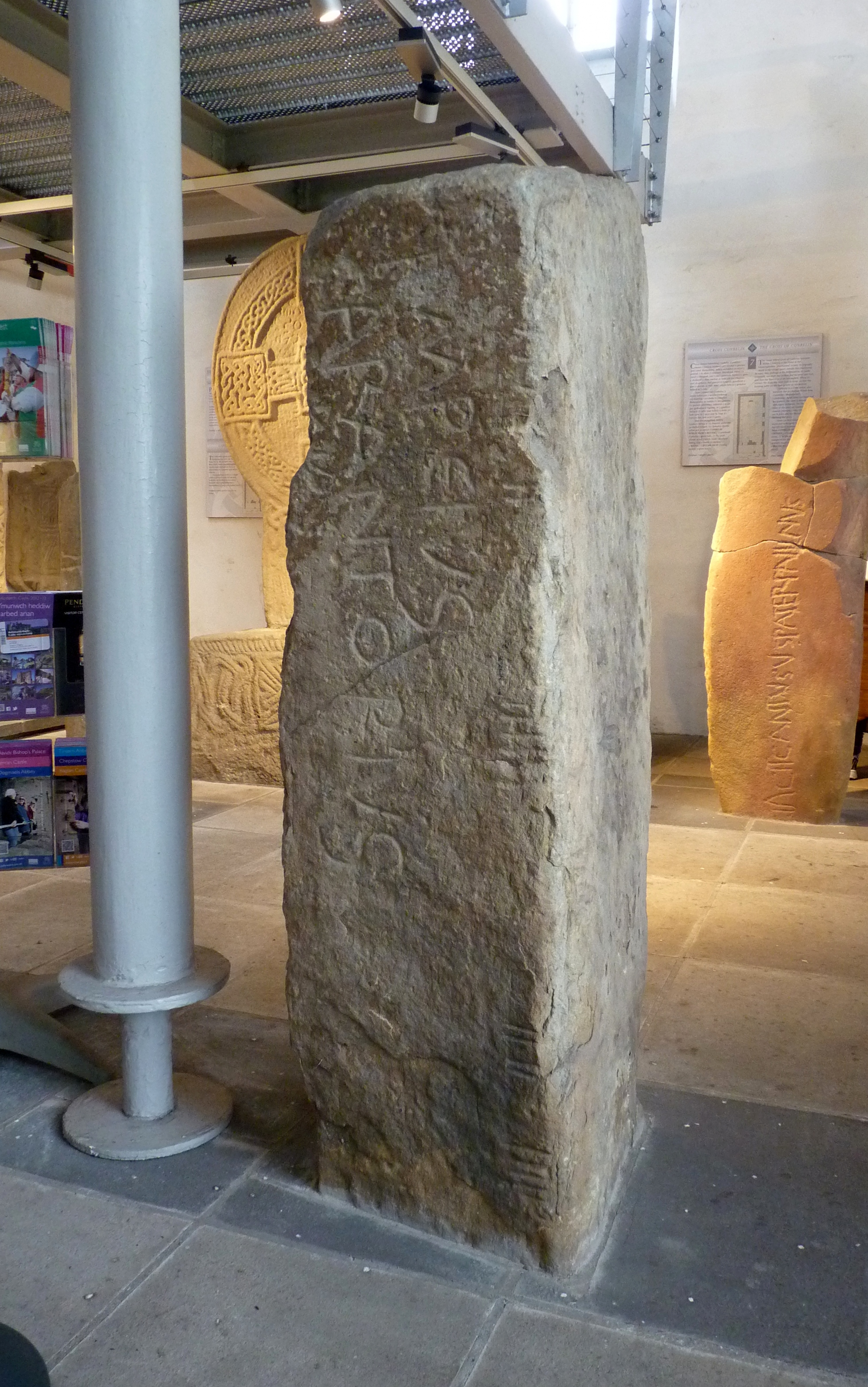 6th C pillar inscribed Pumpeius Carantorius, the stone was originally at Eglwys Nunydd, just south of Margam. Now in the Margam Stones Museum, nr Port Talbot.